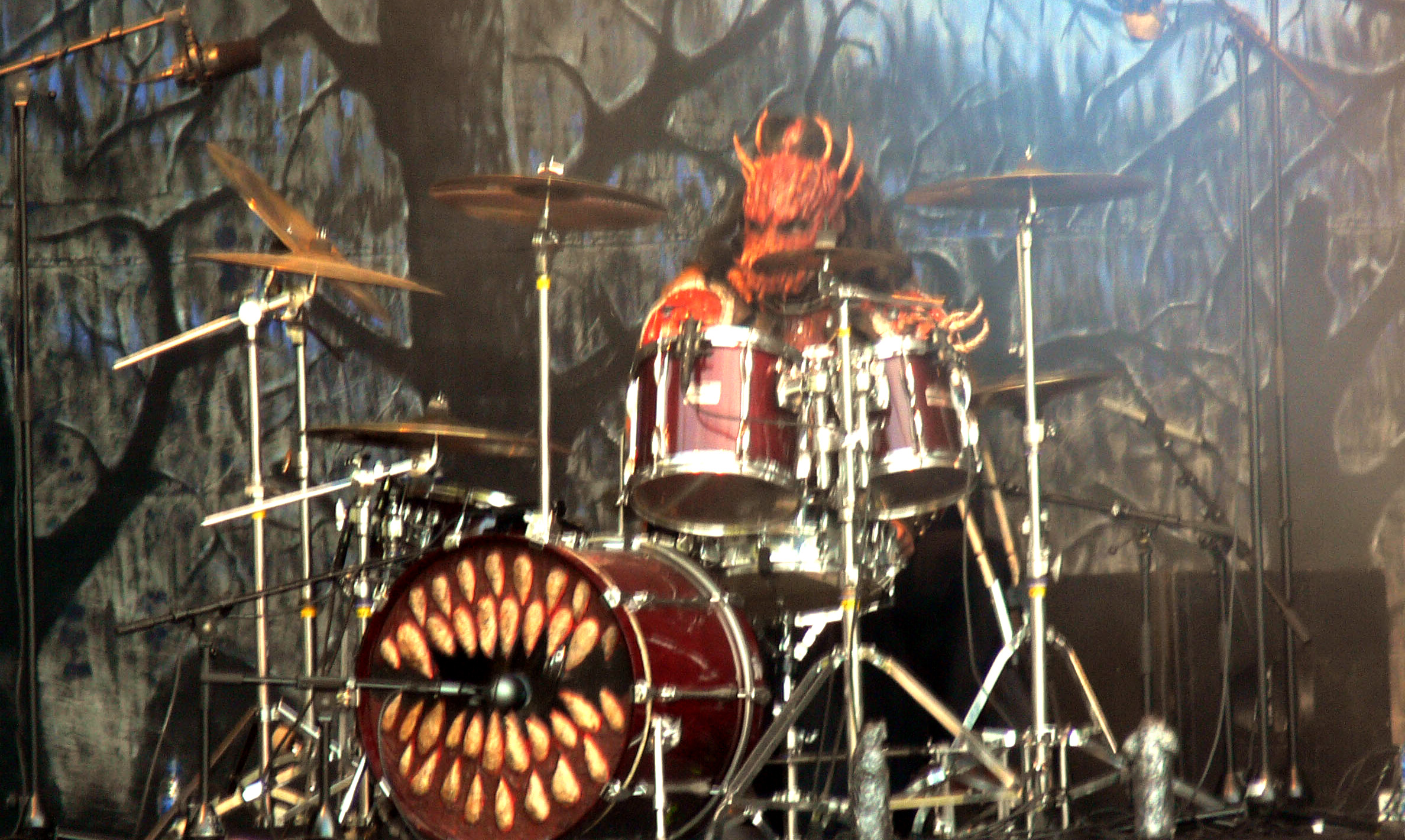 Kita, the drummer of the Finnish hard rock band Lordi, on stage at the Heinolassa Jyrää -concert, in Heinola Finland 2006.